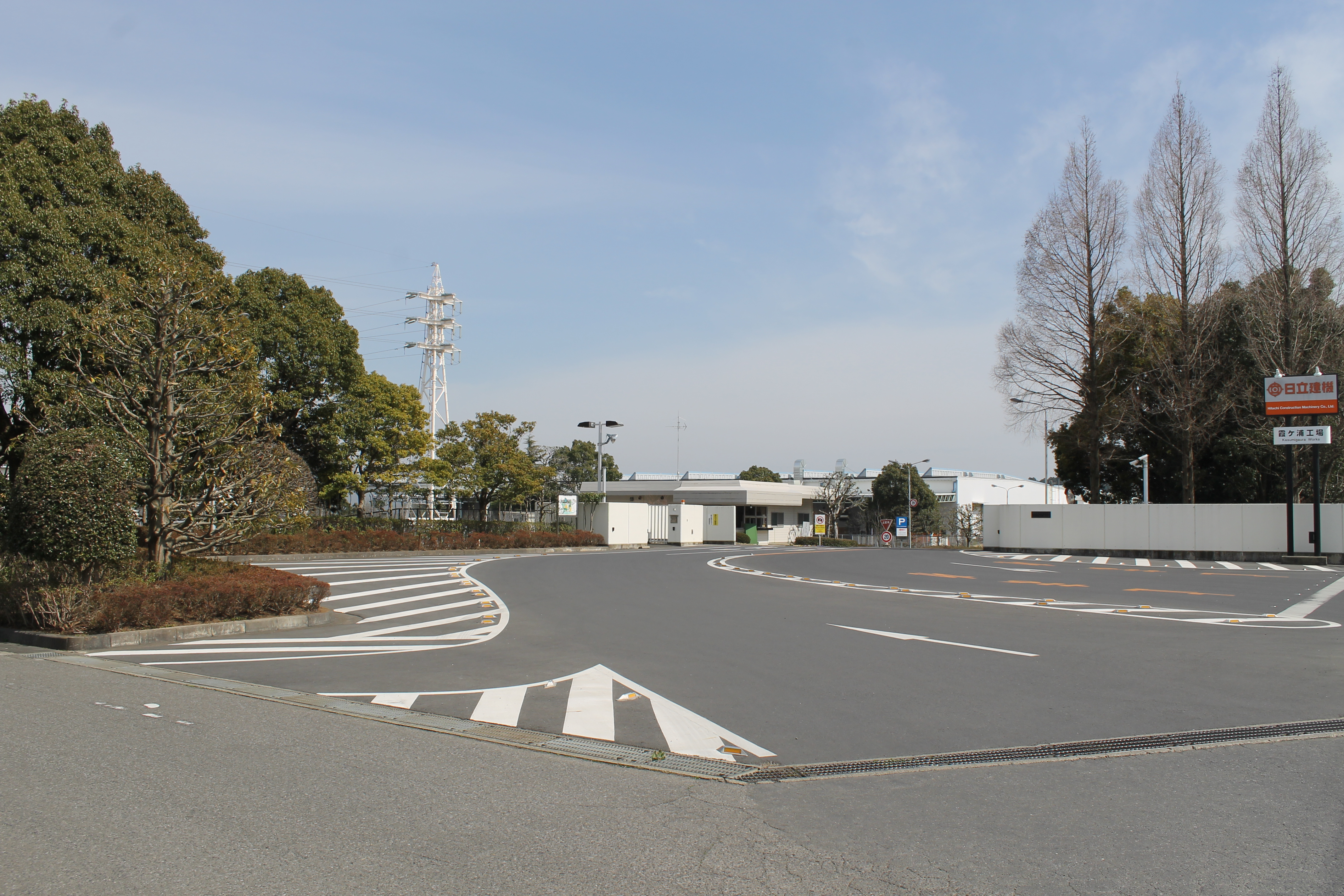 Hitachi Construction Machinery Kasumigaura Factory